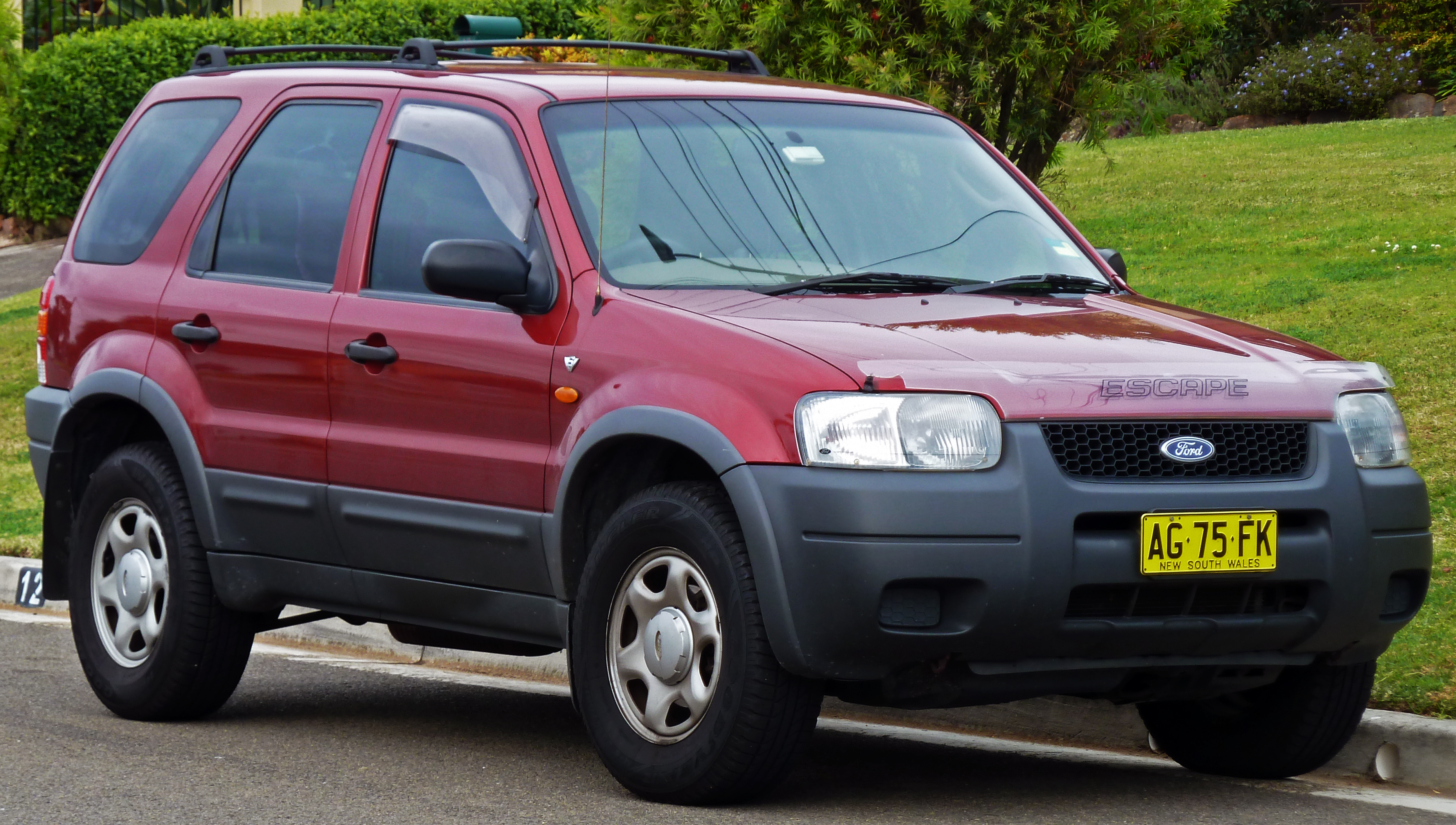 2003 Ford Escape (ZA) XLS wagon. Photographed in Taren Point, New South Wales, Australia.